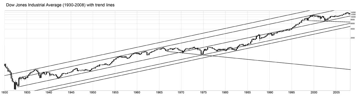 Dow Jones Industrial Average 1930-2008 with trend lines